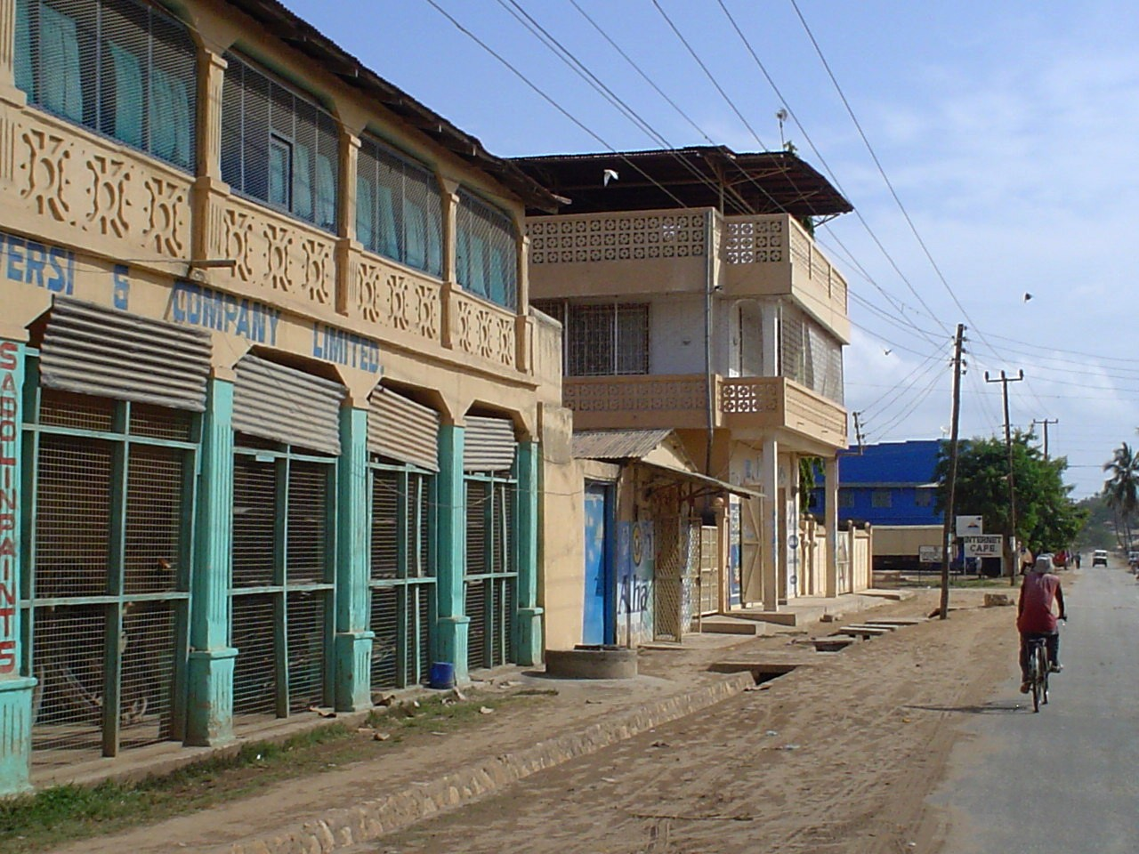 Ghana Street (= main street) in Lindi, Tanzania, 2005.